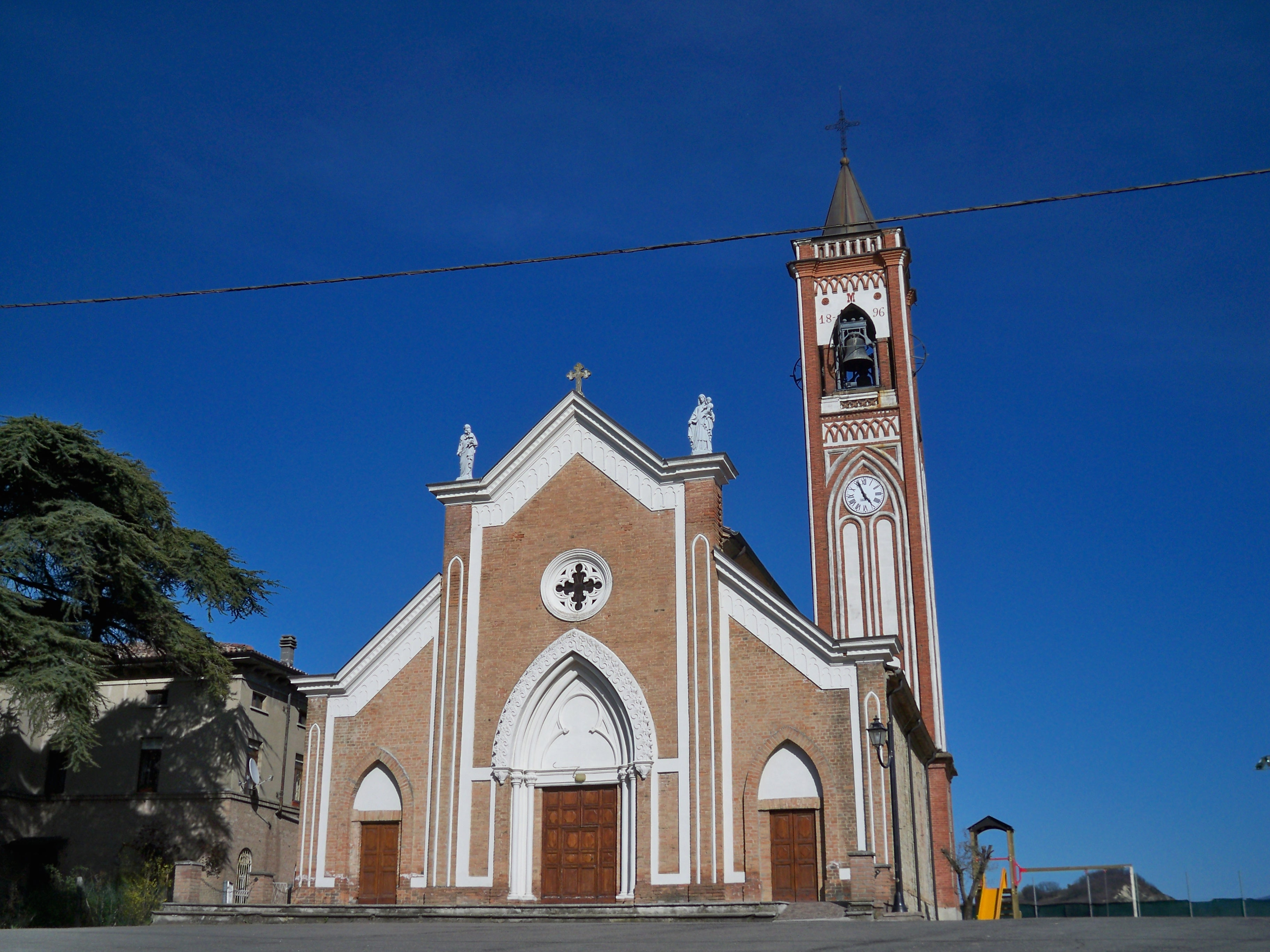 Church of Montale Celli (AL)